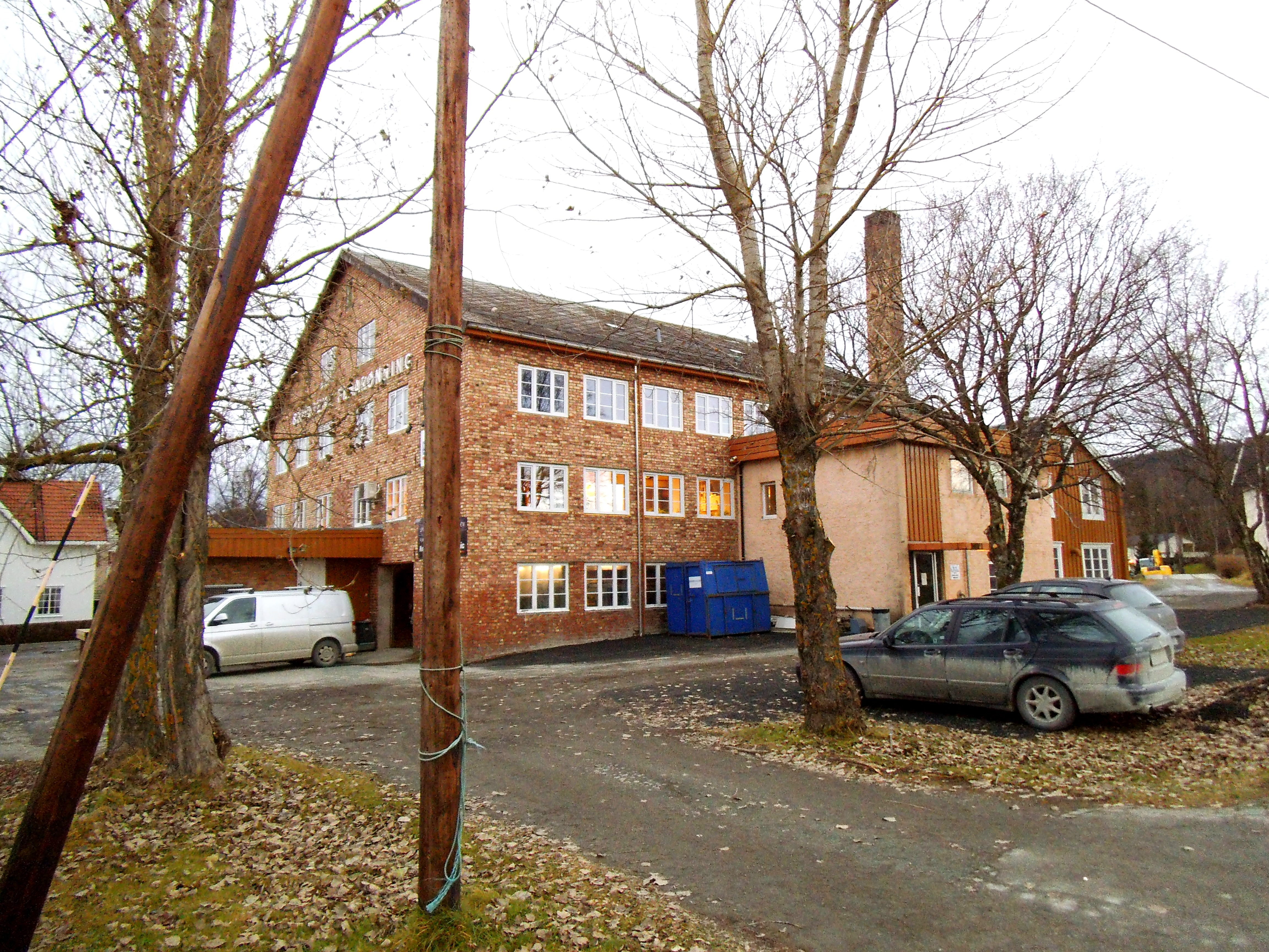 Brødrene Flaarønning in Ler, Melhus. The old brick building.